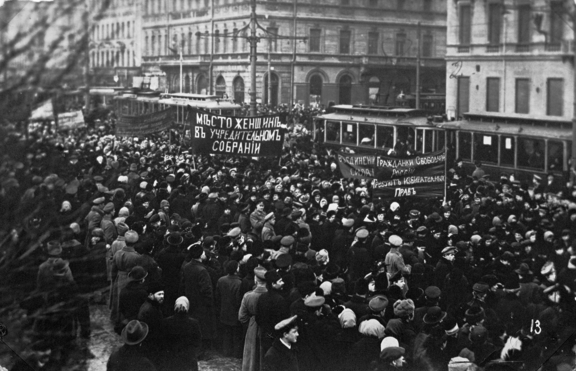 Saint Petersburg (Russia), Nevsky Prospekt.